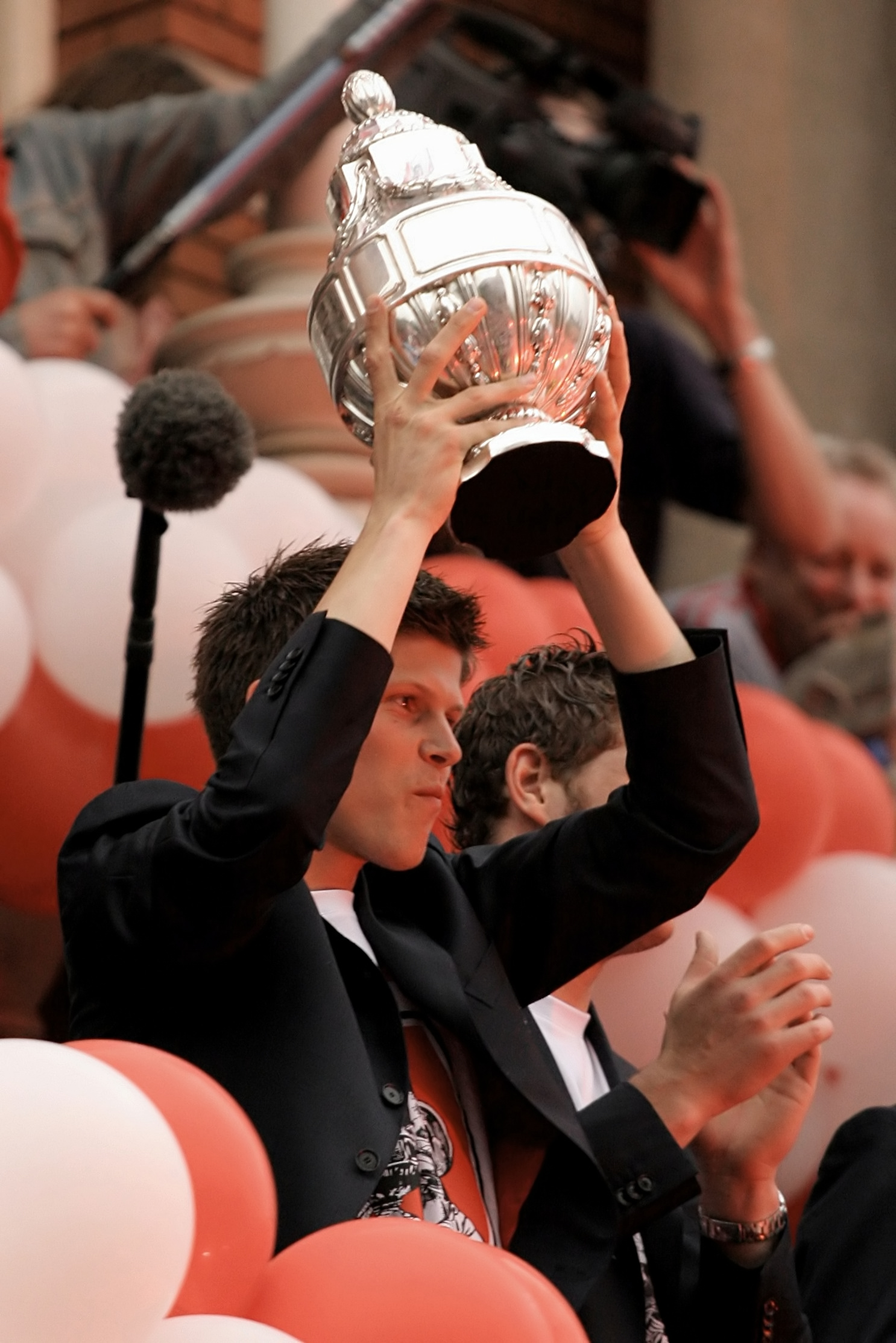 Klaas-Jan Huntelaar celebrating victory the Dutch Cup with Ajax.